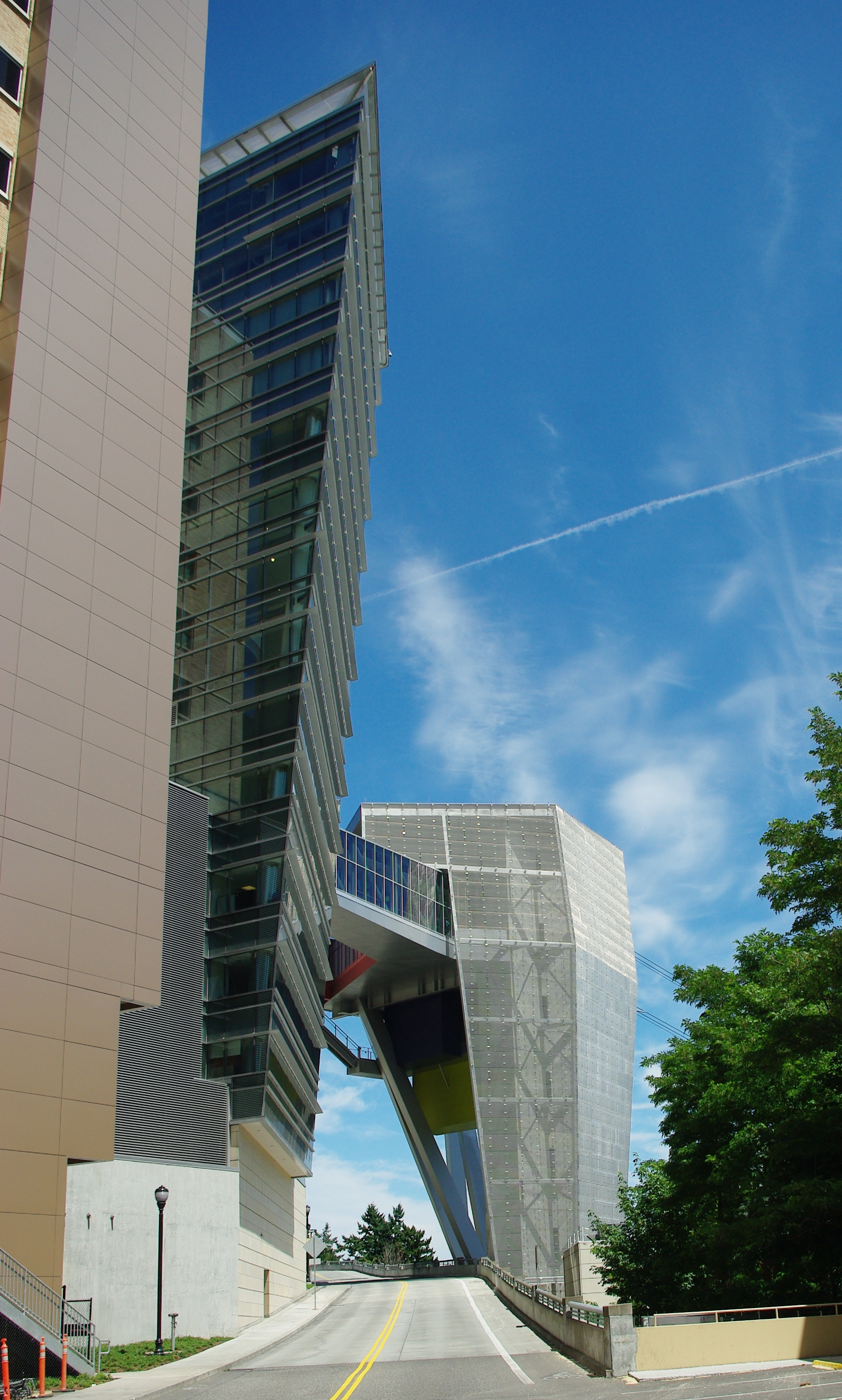 Portland Aerial Tram at Oregon Health & Science University, in Portland, Oregon.